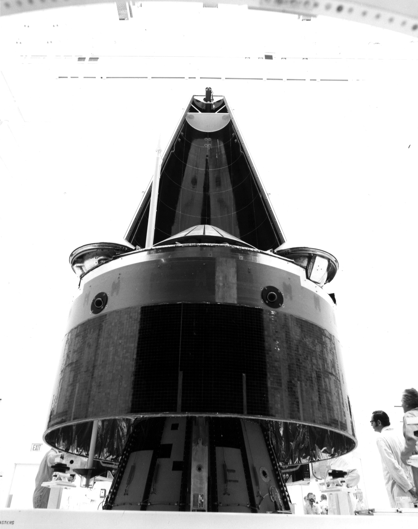 Encapsulation of the Pioneer Venus Multiprobe in its protective nose fairing is closely monitored by technicians in Hangar AO. The 2,000-pound spacecraft is one of two being launched toward the planet Venus.